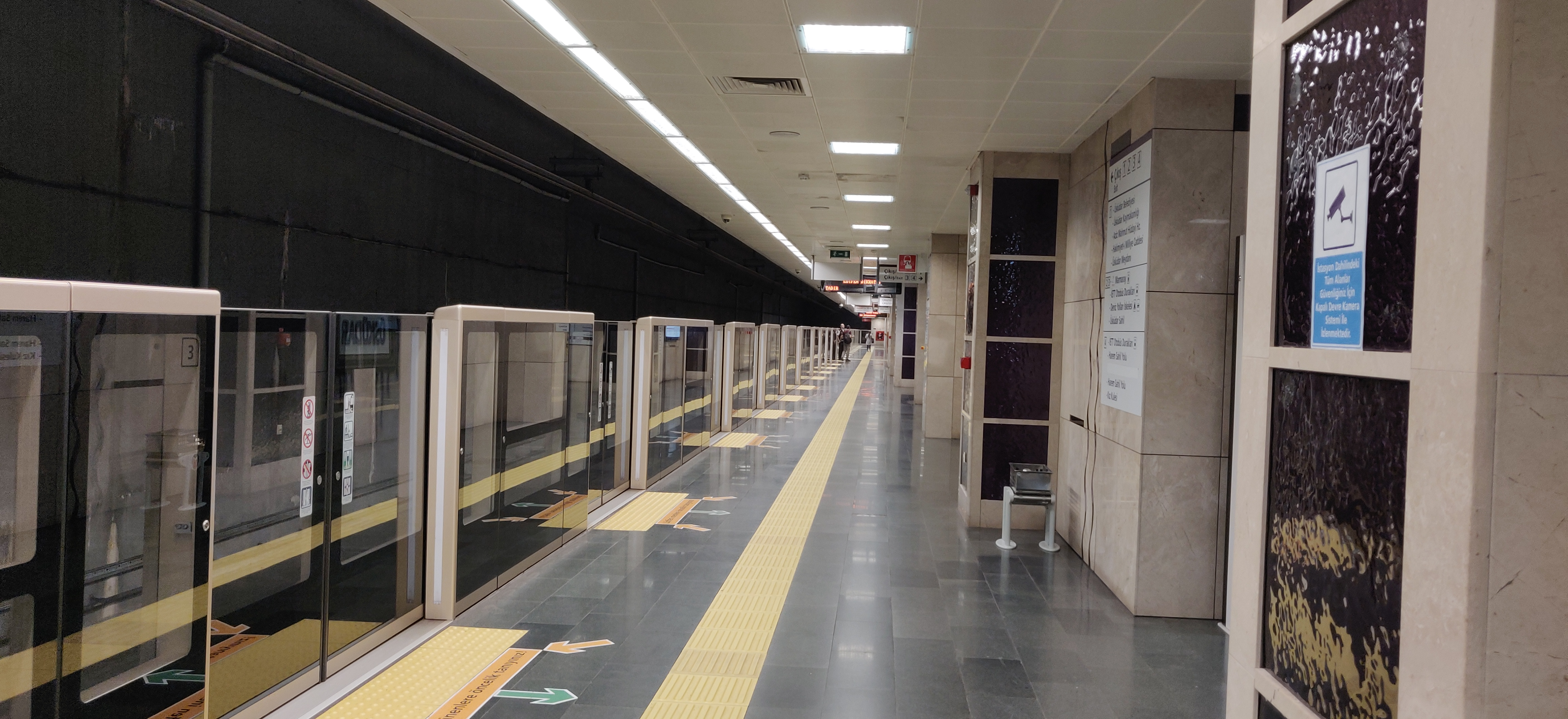 Üsküdar metro station